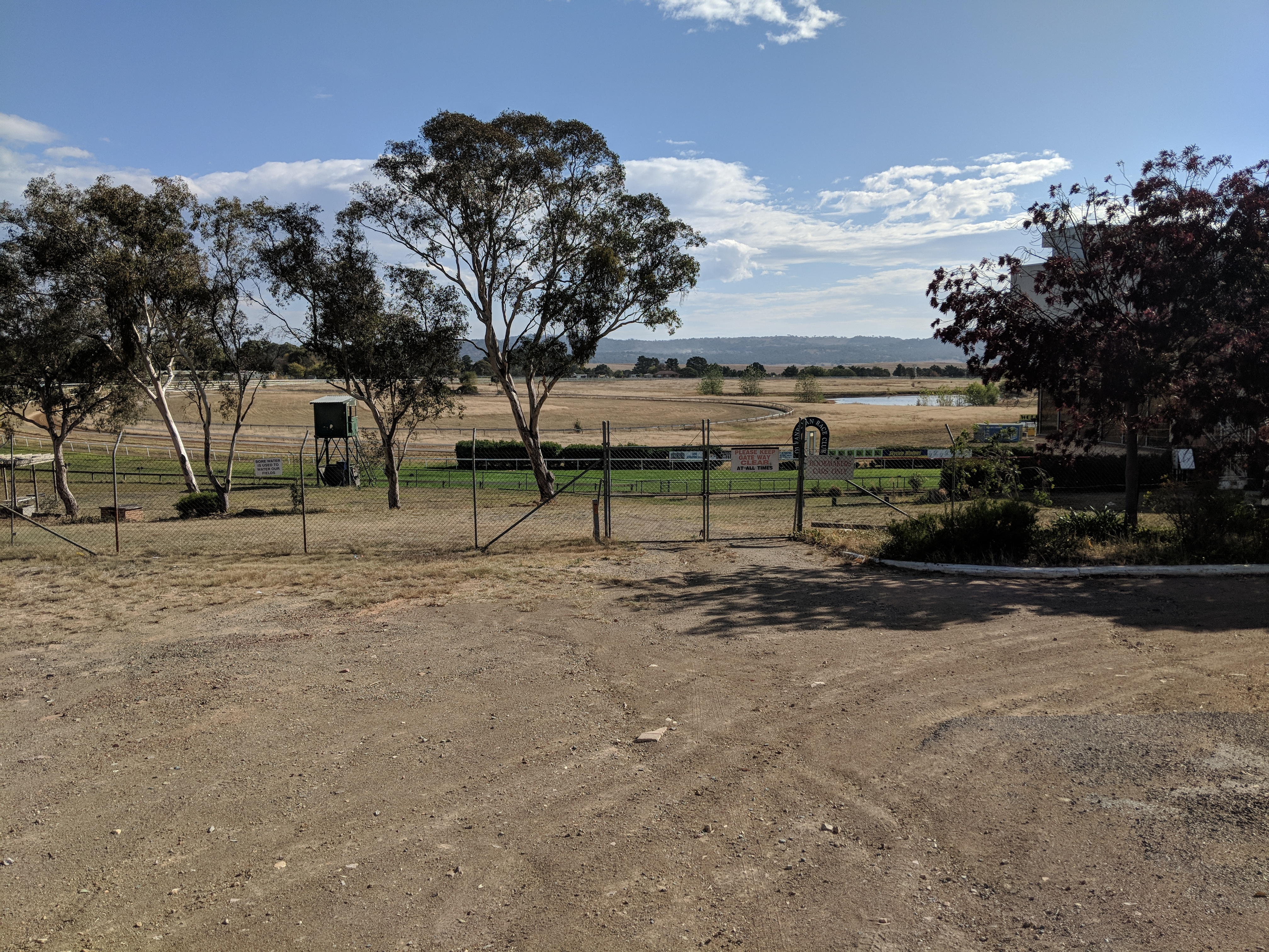 Queanbeyan Race Course, Queanbeyan West